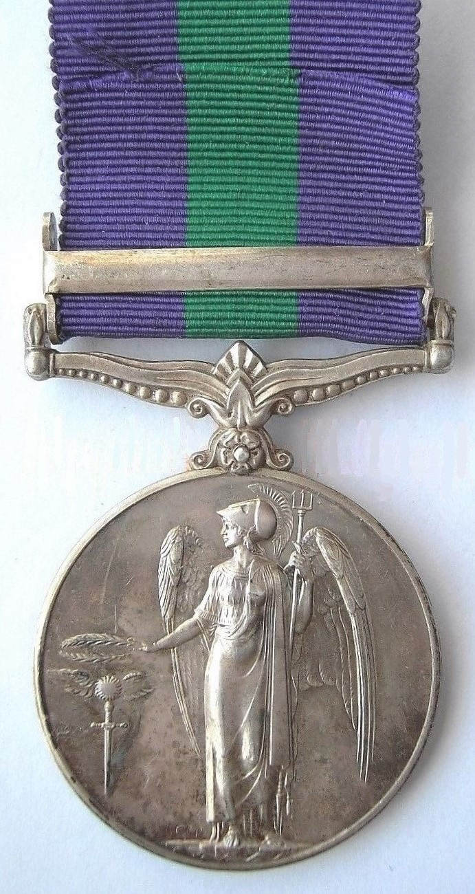 Army & RAF General Service Medal, common reverse for all versions.